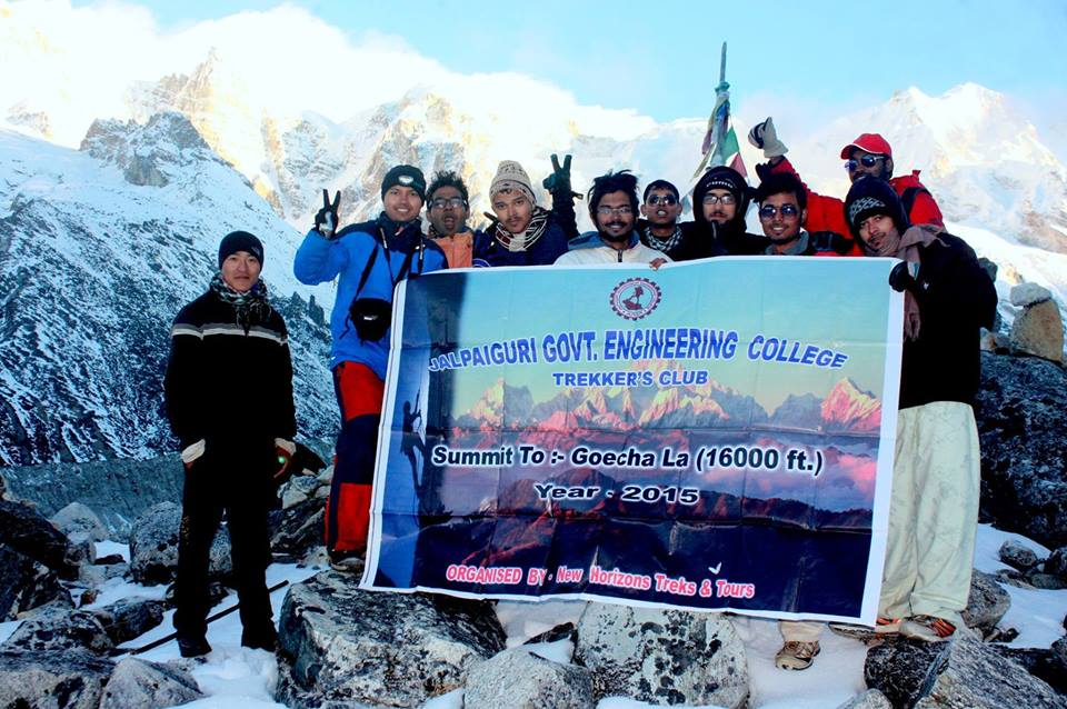 Trek to Gocha La(16000 Ft) by JGEC students